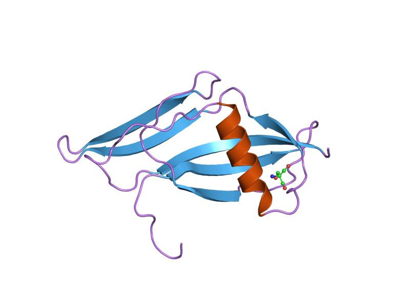 Cartoon representation of the molecular structure of protein registered with 2sak code.